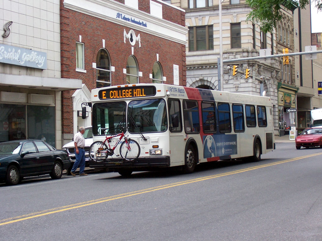 LANTA Metro New Flyer D40LF #0354 works the E line in downtown Easton, Pennsylvania.